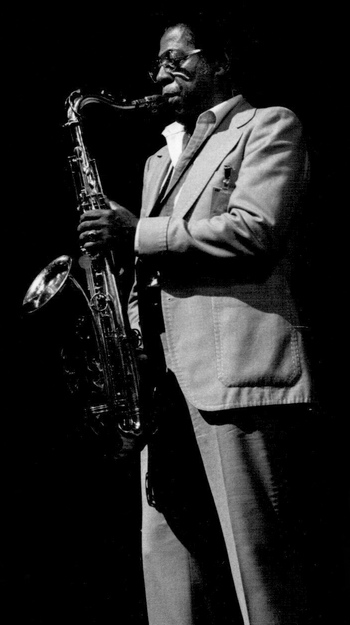 American tenor saxophone player Herb Hardesty in Paris, France